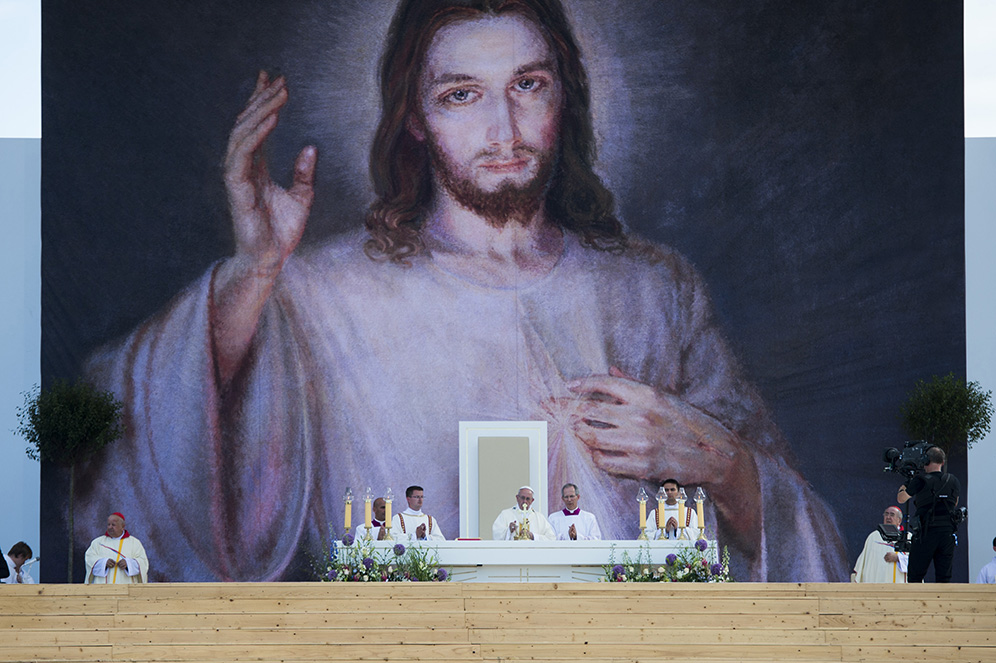 31.07.2016, Brzegi | Udział premier Beaty Szydło w Mszy Świętej Światowych Dni Młodzieży. Fot. P. Tracz / KPRM